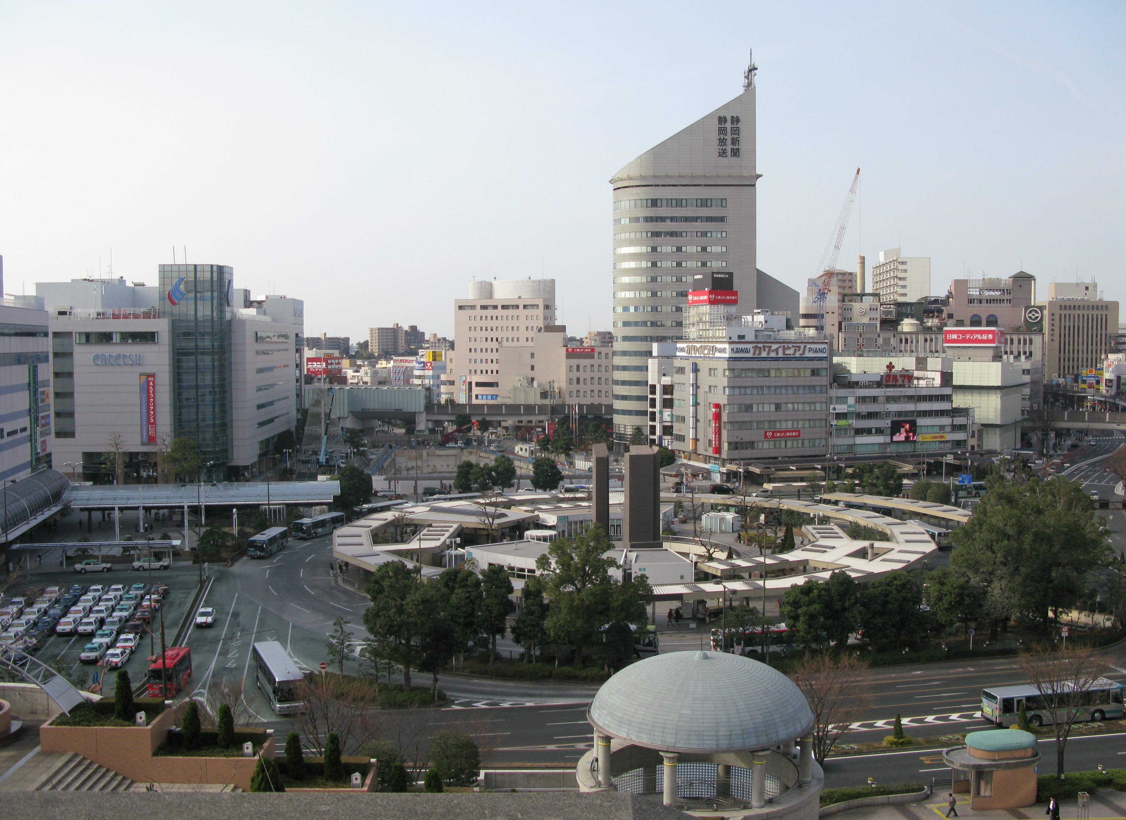 This is an edited version of the photo located at